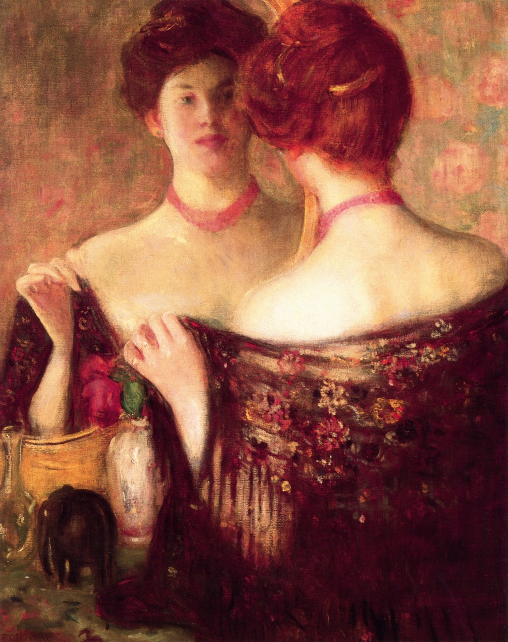 Before a Mirror